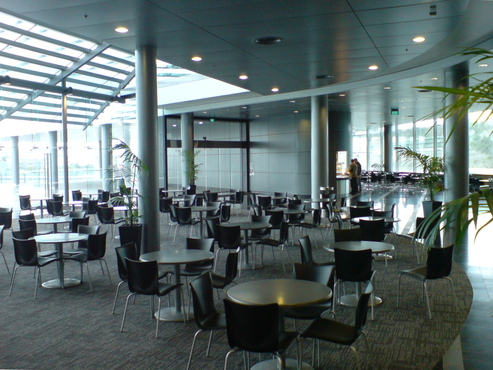 The Owen G. Glenn Building's cafeteria, part of the University of Aucklands new Business School.